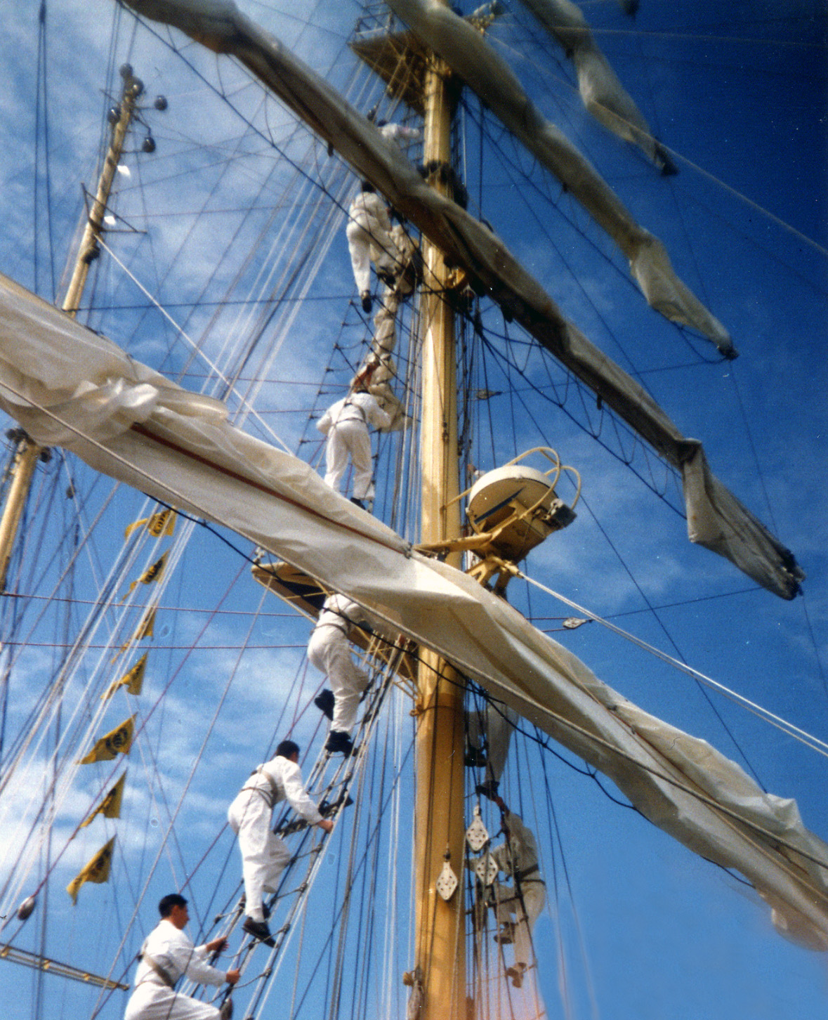 the barquentine "Kaliakra", Varna, Bulgaria